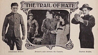 Advertisement and full-page profile of 1917 Bison Motion Pictures film The Trail of Hate starring Jack Ford (early credit used by director John Ford); depicted are Ford as Lieutenant Brewer (left), actress Louise Granville as Madge in film still at center, and actor Duke Worne as Captain Holden (far right); published in The Moving Picture Weekly, April 21, 1917, p. 29.